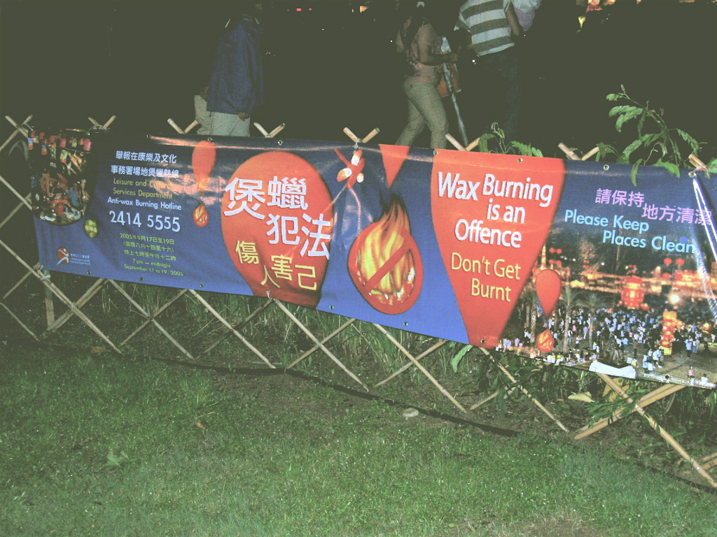 Wax burning warming banner, in Hong Kong.